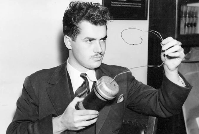 Los Angeles Times publicity photo of John Whiteside "Jack" Parsons during the murder trial of police officer Earl Kynette.